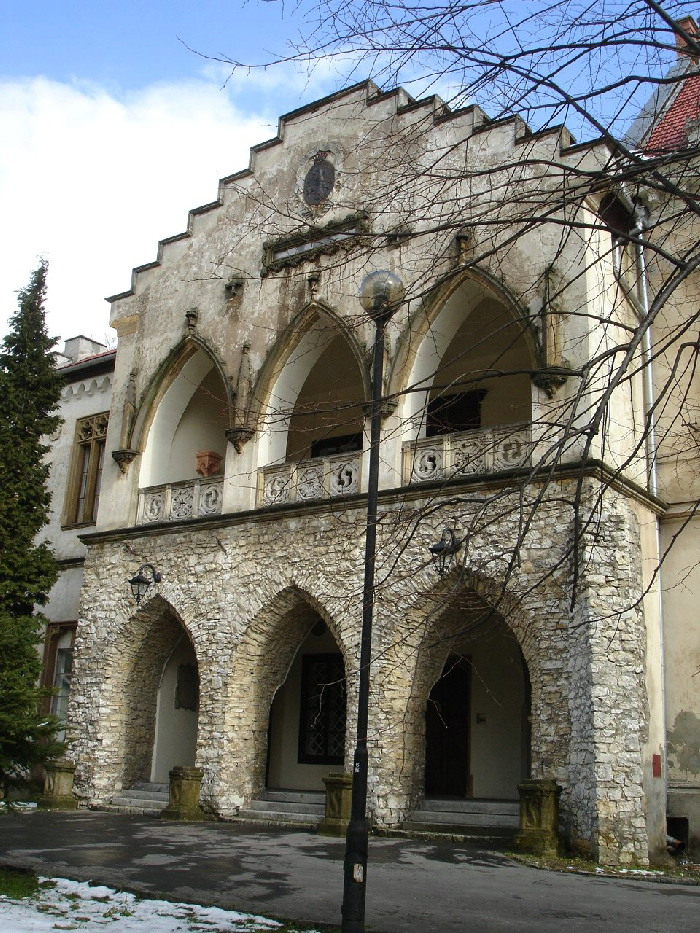 The Gothic revival detailing on the Frankiewicz Palace in Młoszowa, Poland